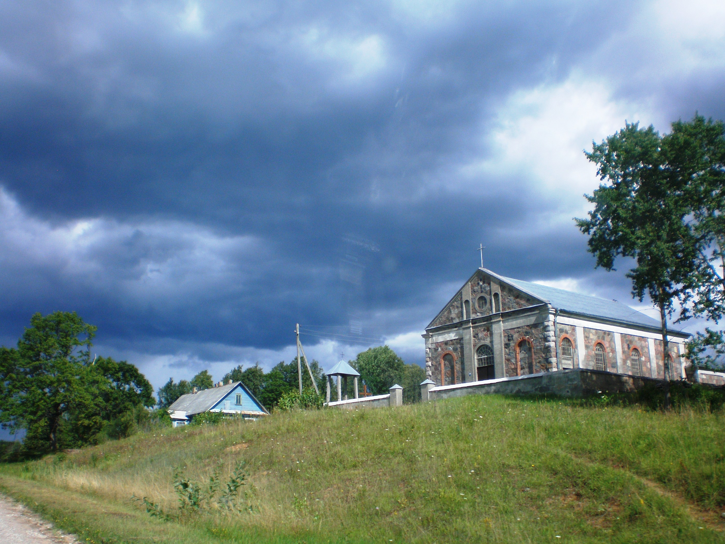 Roman Catholic church of Saint Peter in Grendze